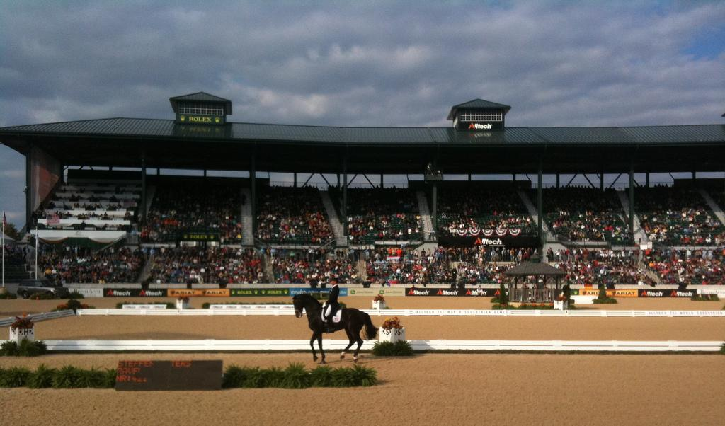 Steffen Peters and Ravel, Dressage Team Grand Prix, 2010 FEI World Equestrian Games